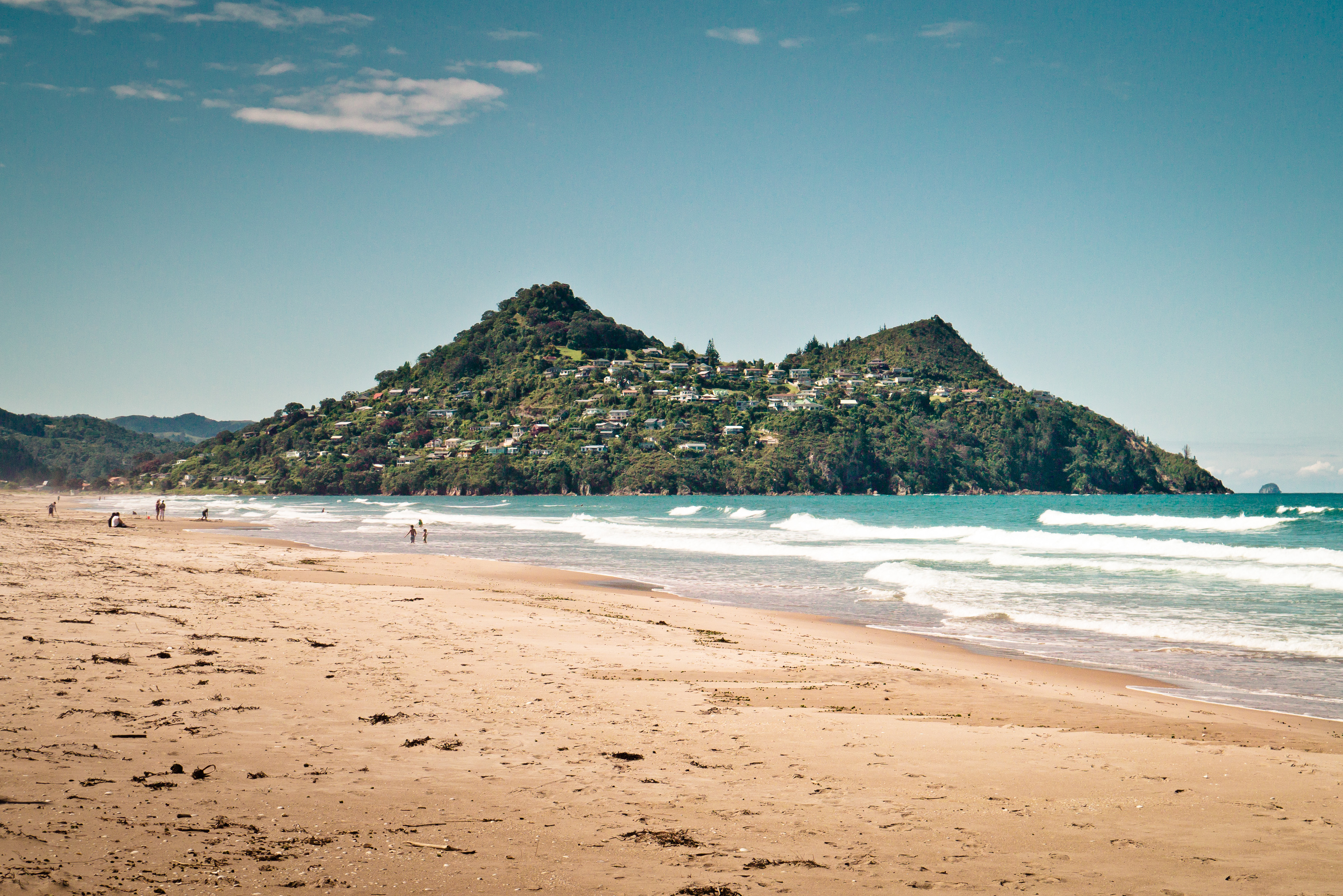 View of Mount Paku